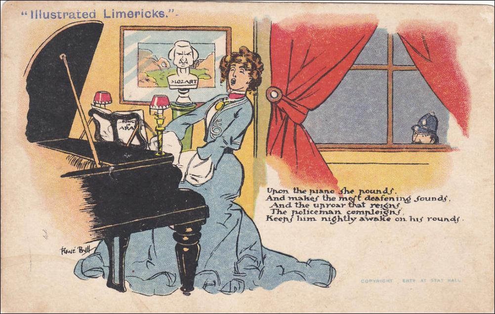 Postcard from the series "Illustrated limericks", illustration signed René Bull